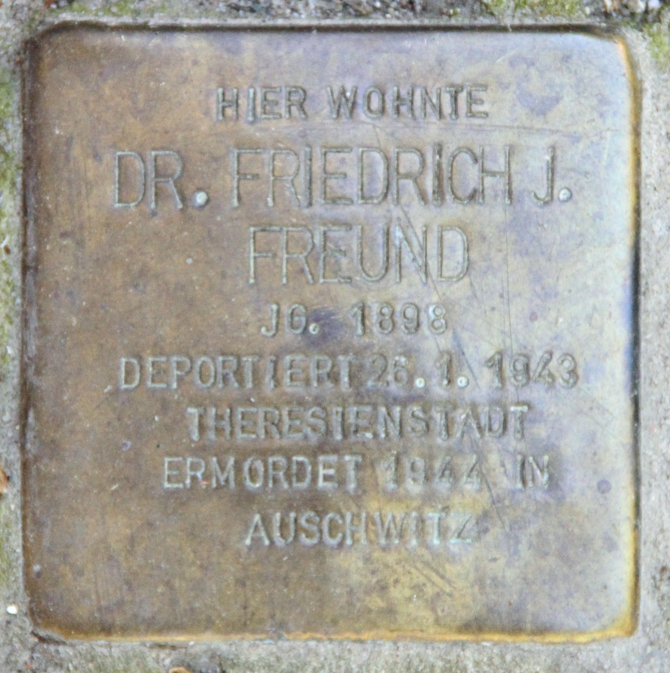 "stumbling block", Friedrich Freund, Mommsenstraße 52, Berlin-Charlottenburg, Germany Koordinate:52°30′12″N 13°18′41″E / 52.50333°N 13.31139°E